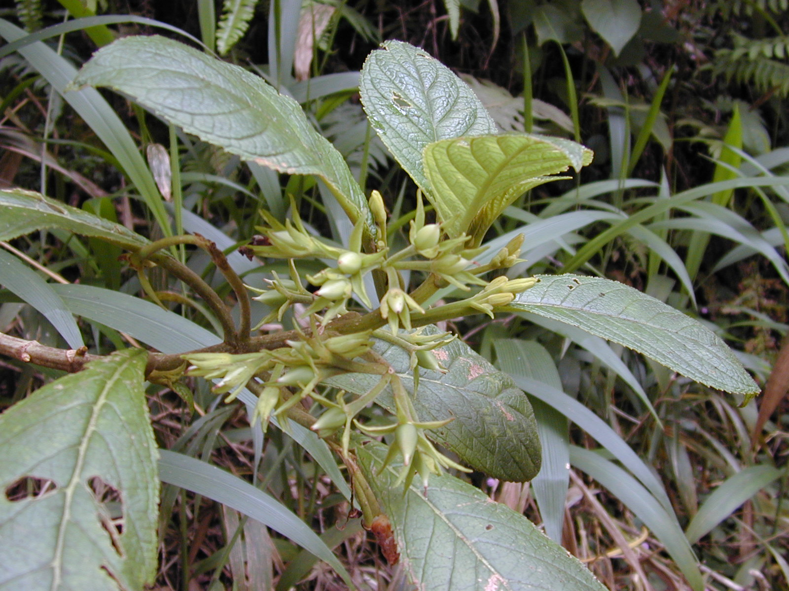 Cyrtandra platyphylla (leaves and flowers). Location: Maui, Makawao Forest Reserve